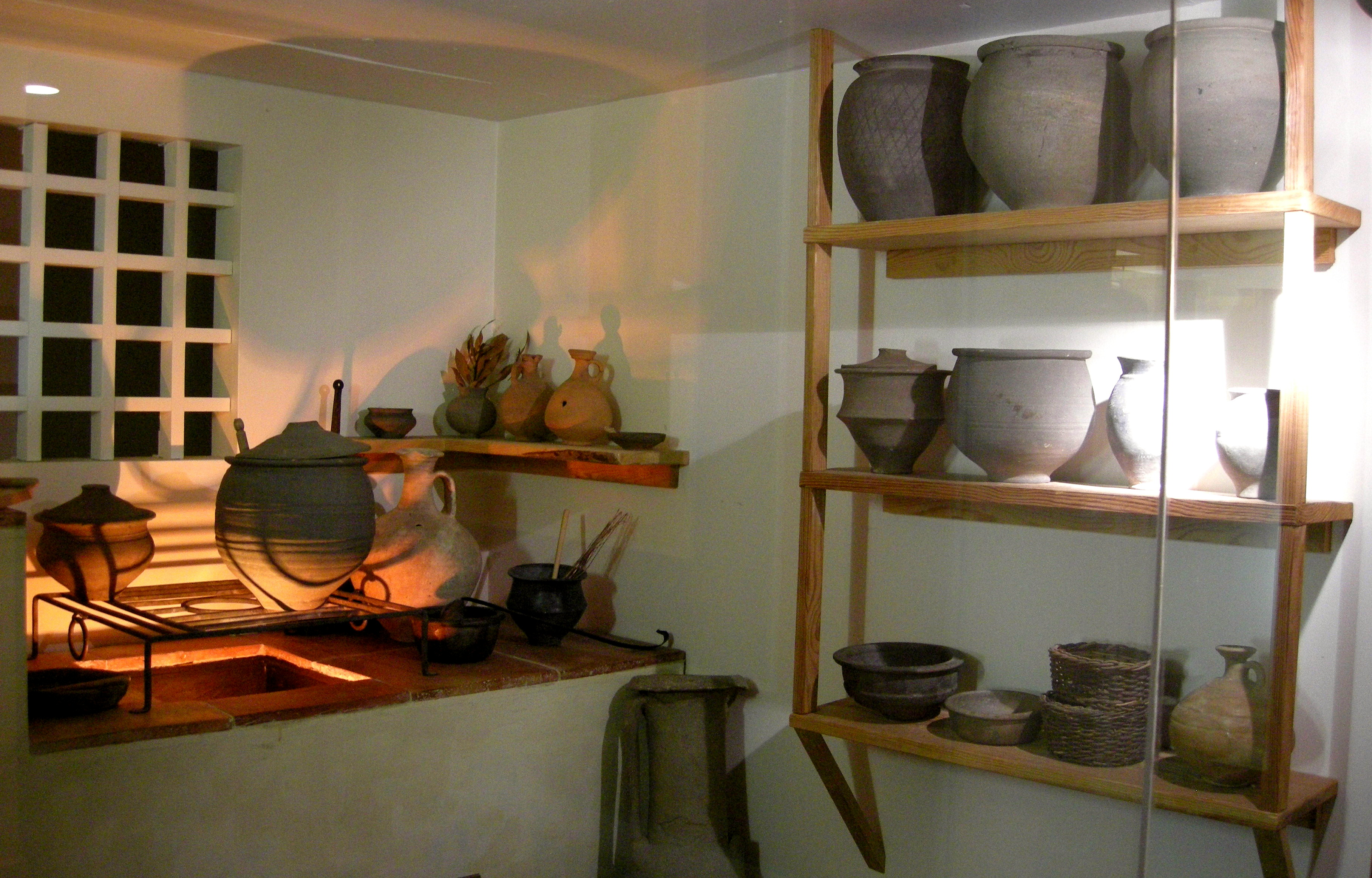 Roman Museum in Butchery Lane, Canterbury, Kent. Reconstruction of a Roman kitchen, with original Roman pottery.